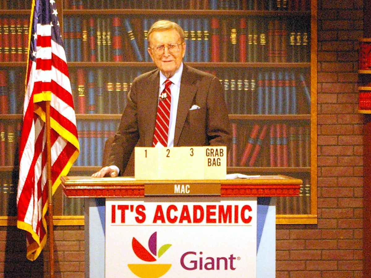 Mac McGarry hosts another It's Academic in historic Studio A at WRC-TV (NBC, Washington DC).